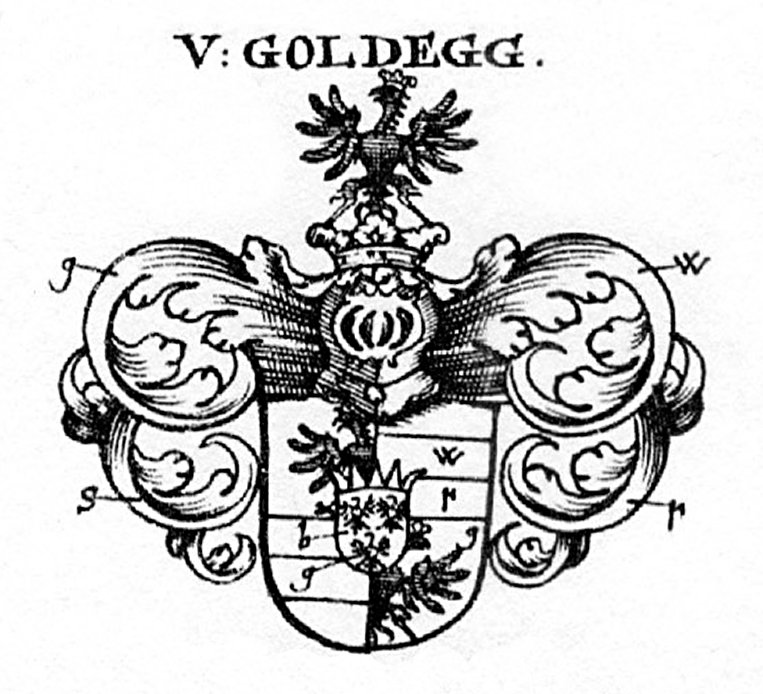 Coat of Arms of Goldegg (Lower Austria)